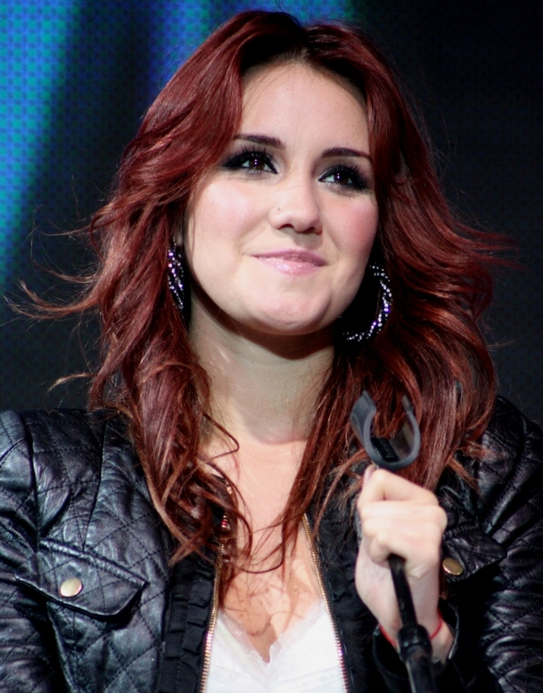 Mexican actress and musician Dulce Maria at Teleton 2011 in Mexico.